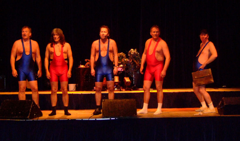 Vinskvetten in Stavanger June 6. 2006